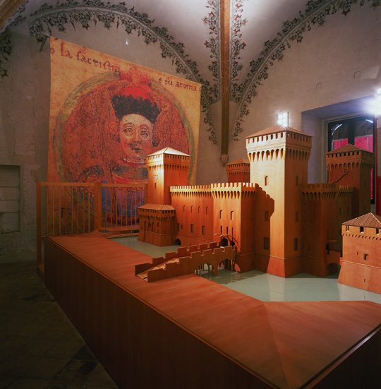 Este Castle of Ferrara, Gothic Room